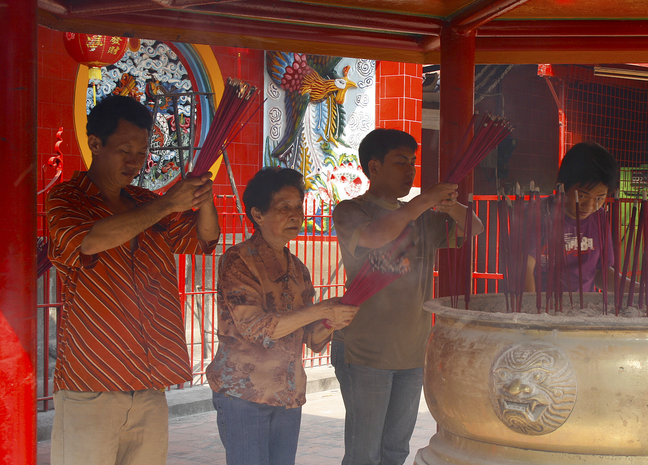 Chinese Indonesian familes went to Kim Tek Ie (Jin De Yuan) temple and burn incense and for worship during several days before Imlek (Chinese New Year). Jin De Yuan Chinese temple, Glodok, Jakarta.